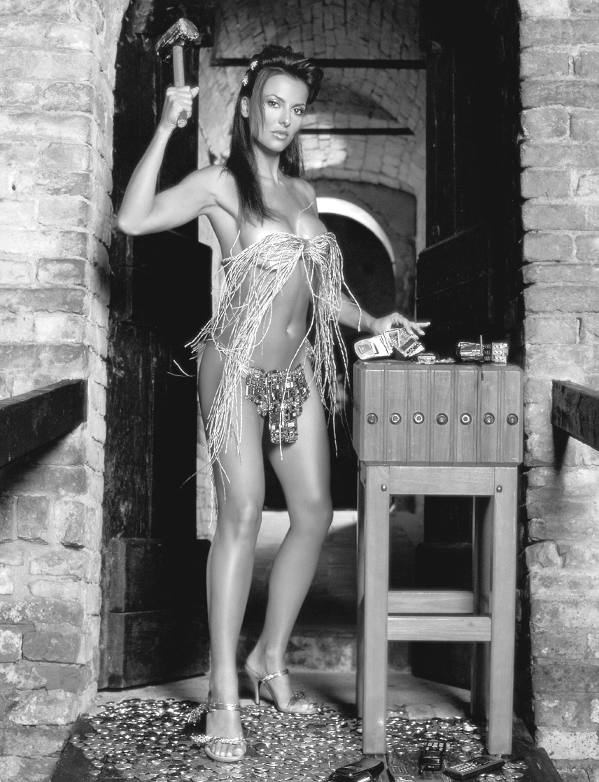 The Italian tv presenter and model Miriana Trevisan depicted while destroying some mobile phones